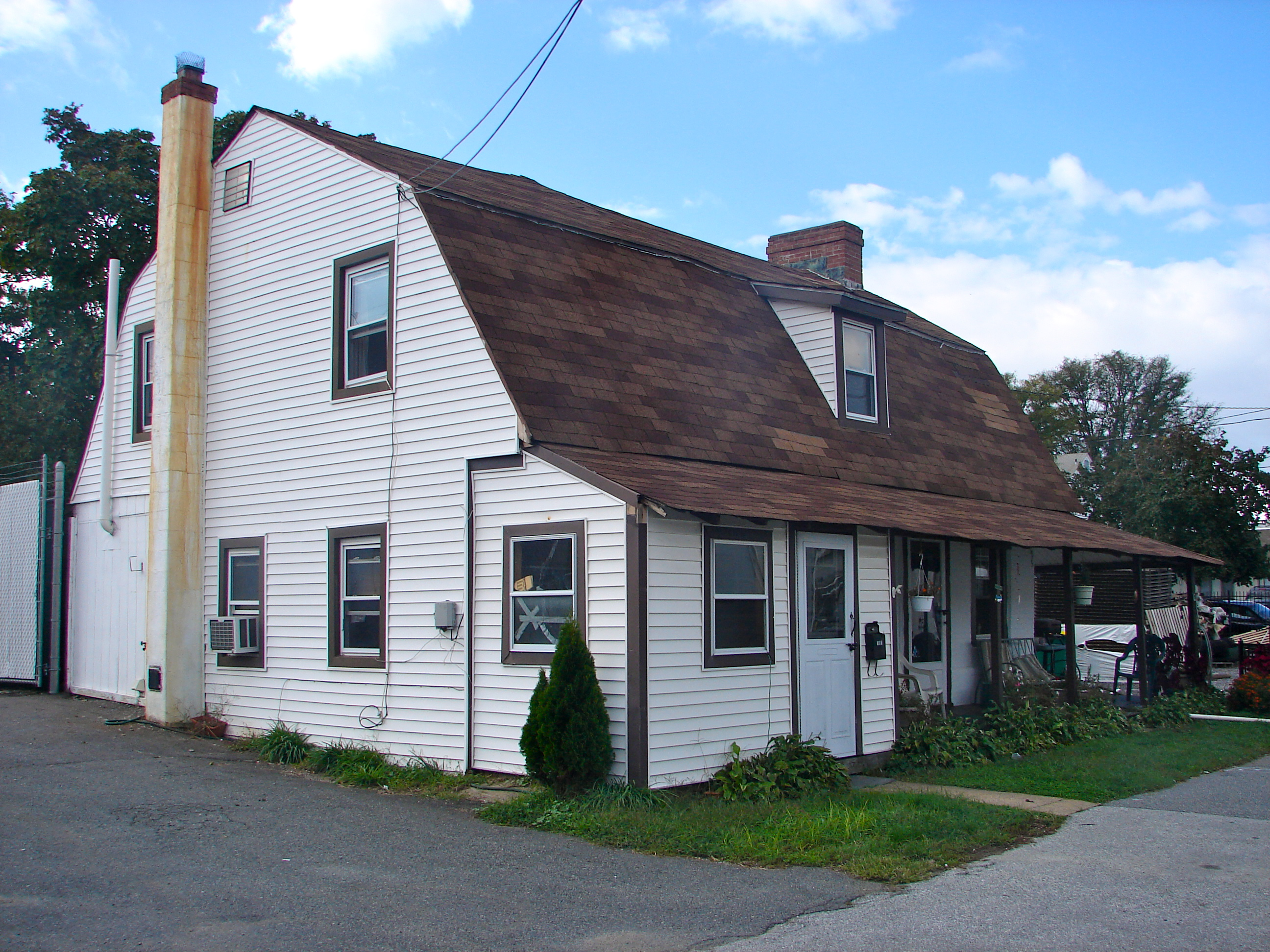 Galloway-Walker House on the NRHP since July 14, 1993. At 107 John St. in Christiana Hundred, Newport, Delaware.